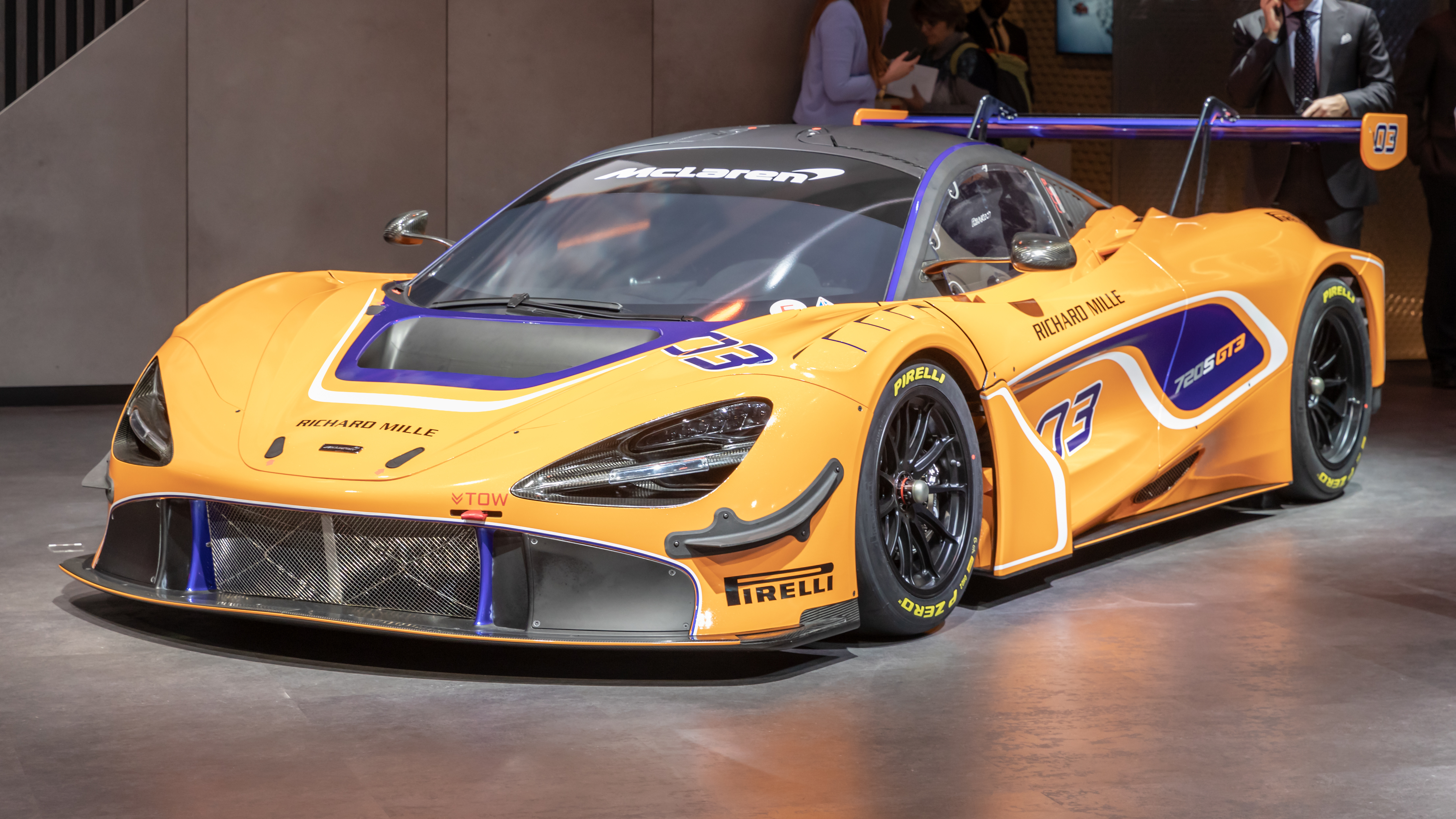 McLaren 720S GT3 at Geneva International Motor Show 2019, Le Grand-Saconnex